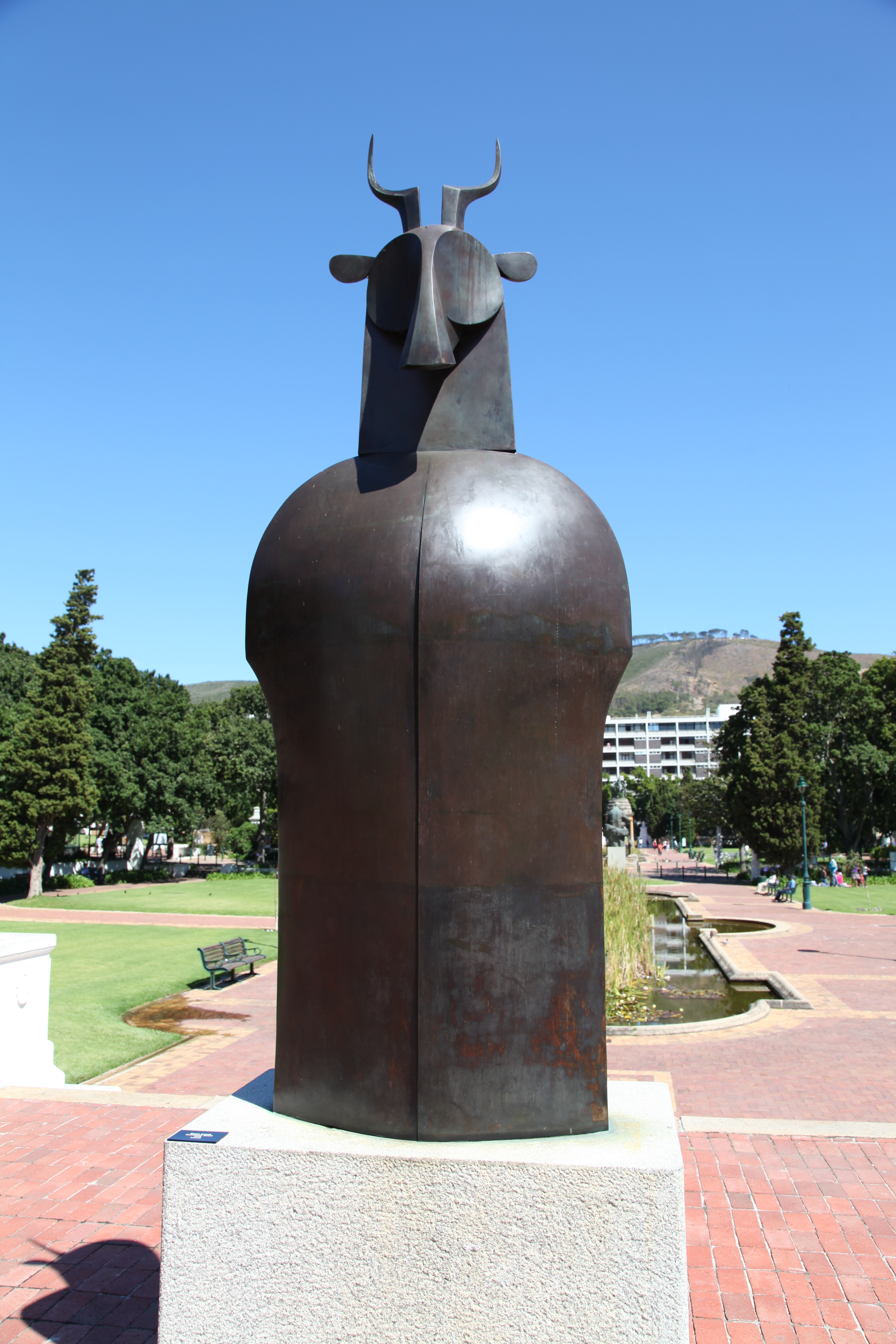 This bronze sculpture by Bruce Arnott was created in 1978 and is titled 'Numinous Beast'. It stands in front of the South African National Gallery in Cape Town.